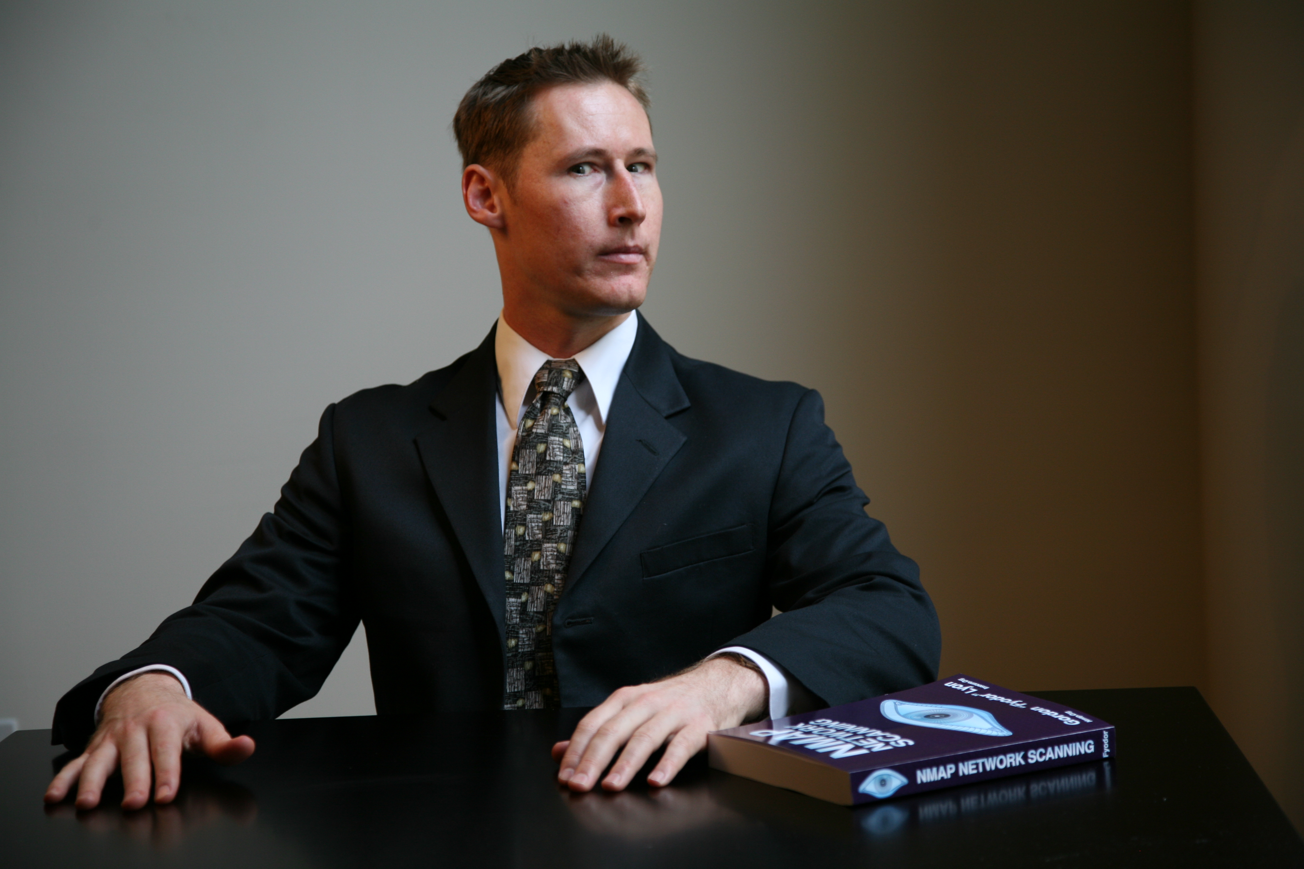 Portrait of Gordon "Fyodor" Lyon, the author of nmap.